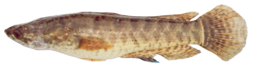 Channa striata A fresh water fish species from Kathani river of Wainganga basin from the Gadchiroli district of Maharashtra state India.